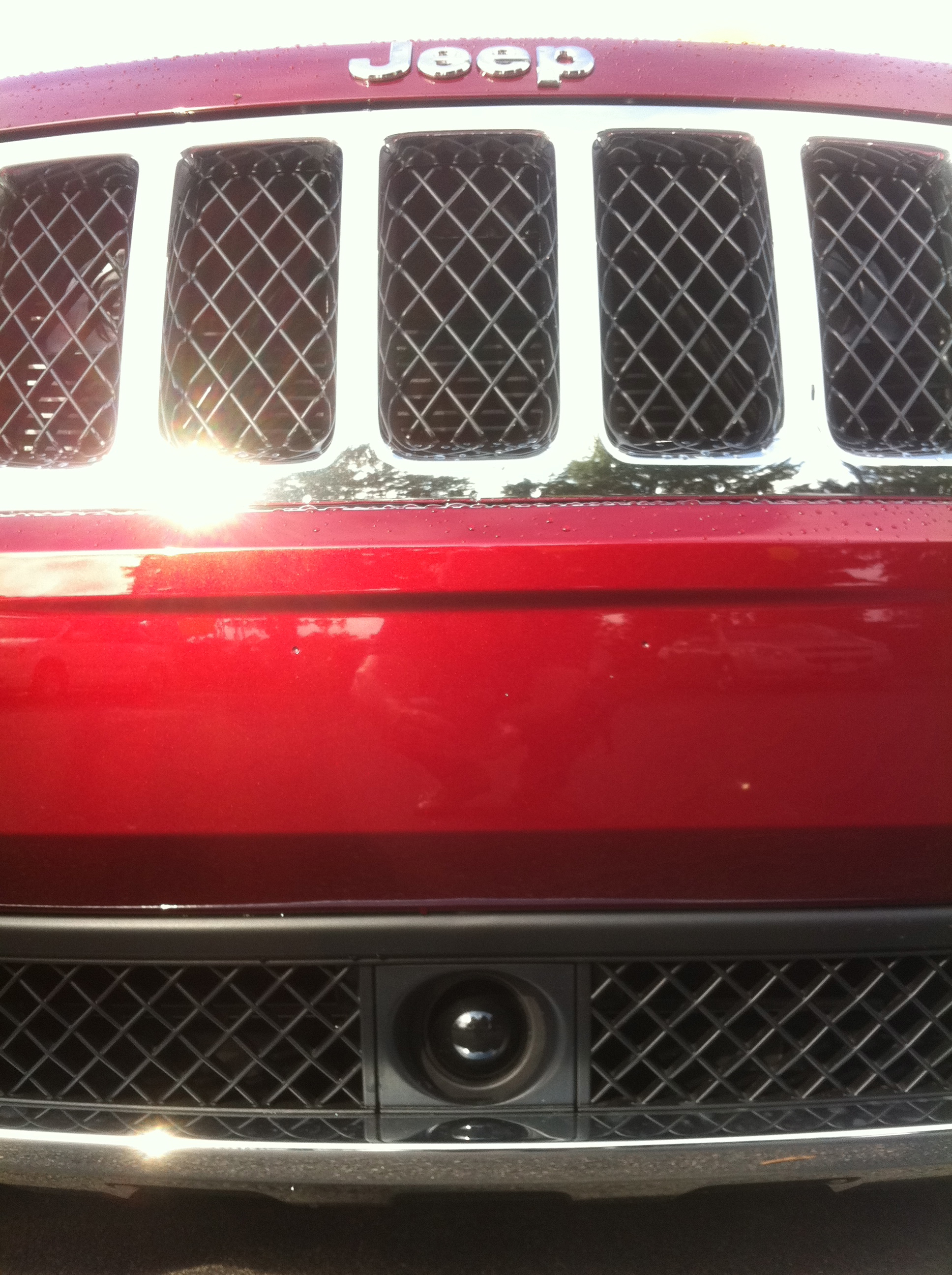 Detail of 2012 Jeep Grand Cherokee, showing the Adaptive Cruise Control sensor located in the center of the lower grill.